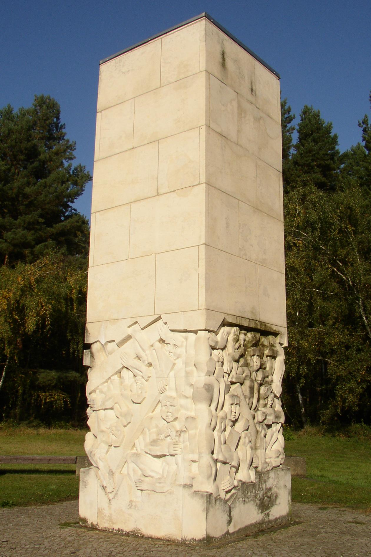 Sculpture by Wolfgang Roßdeutscher in Langenstein-Zwieberge in Saxony-Anhalt, Germany